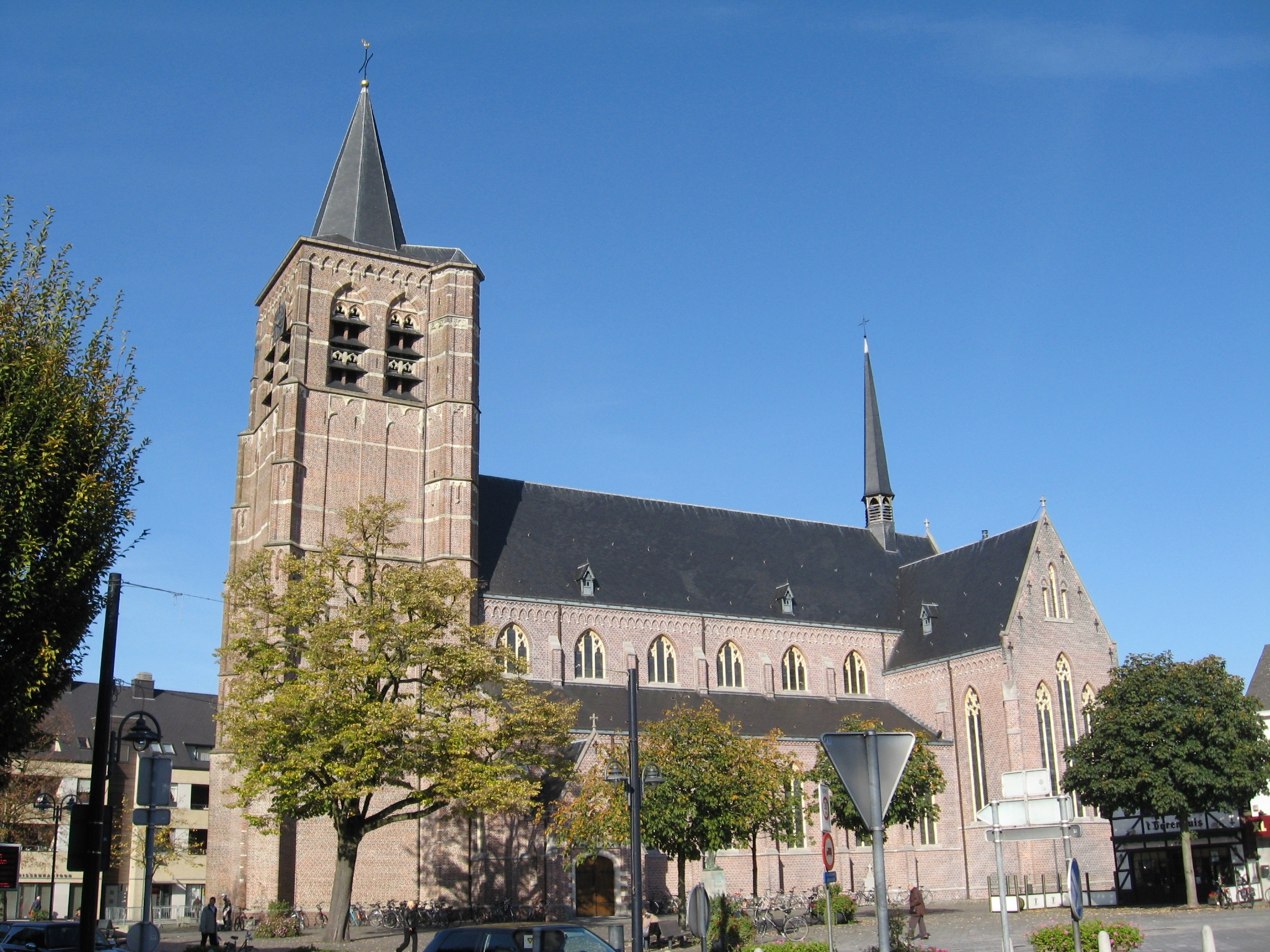 Church of Saint Peter in Chains in Lommel, Limburg, Belgium